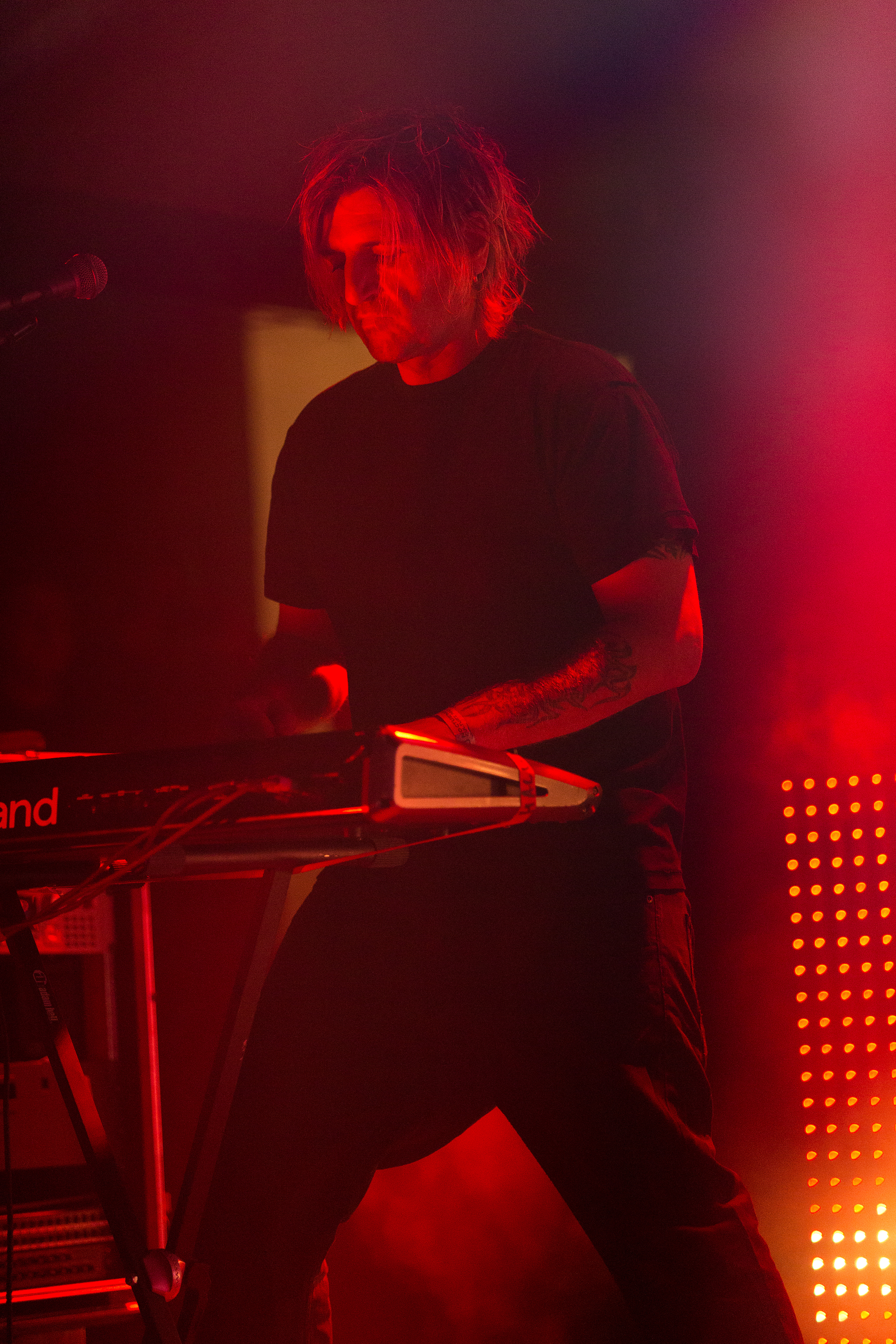 The German synth rock band Project Pitchfork at the Nocturnal Culture Night 10 2015 in Deutzen/Germany.